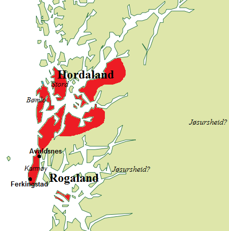 Locations relevant to legendary Norwegian petty king Augvald.